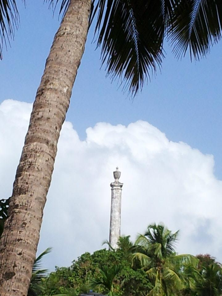 Colonel Hill - 30m tall column